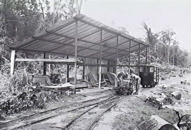 BADAS, BORNEO. 1945-08-31. THE BADAS RAILWAY STATION SHED WITH THE PETROL OPERATED 'FLYER' IN REAR. MEMBERS OF A COMPANY, 2/2ND MACHINE GUN BATTALION ARE SHOWN STACKING RATIONS ONTO A FLATCAR.